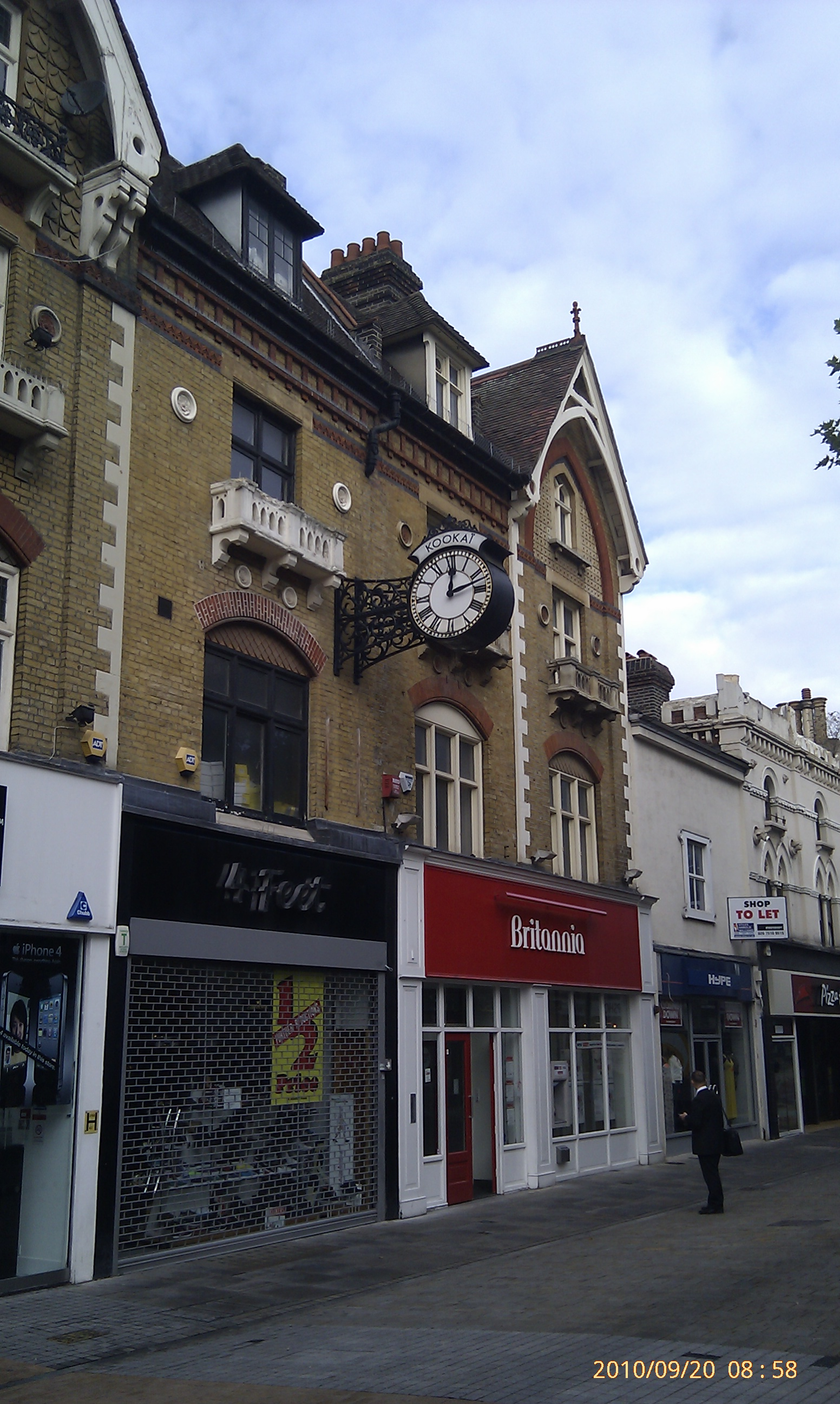 This clock does work but is not showing the correct time. I time-stamped the photo with the correct time. The location of the clock is in Croydon Town Centre on North End pedestrian walk, outside the Whitgift Centre.